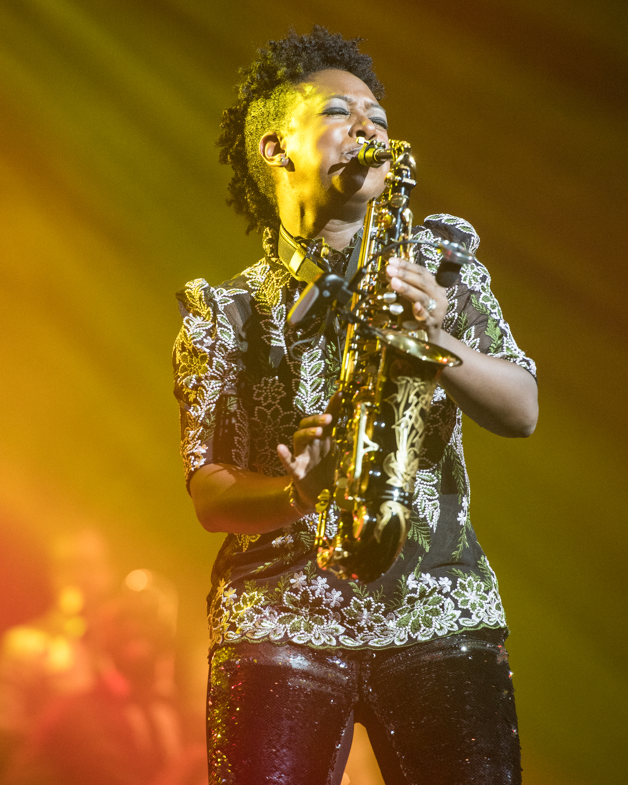 Live in concert at the London Jazz Festival. Barbican Centre